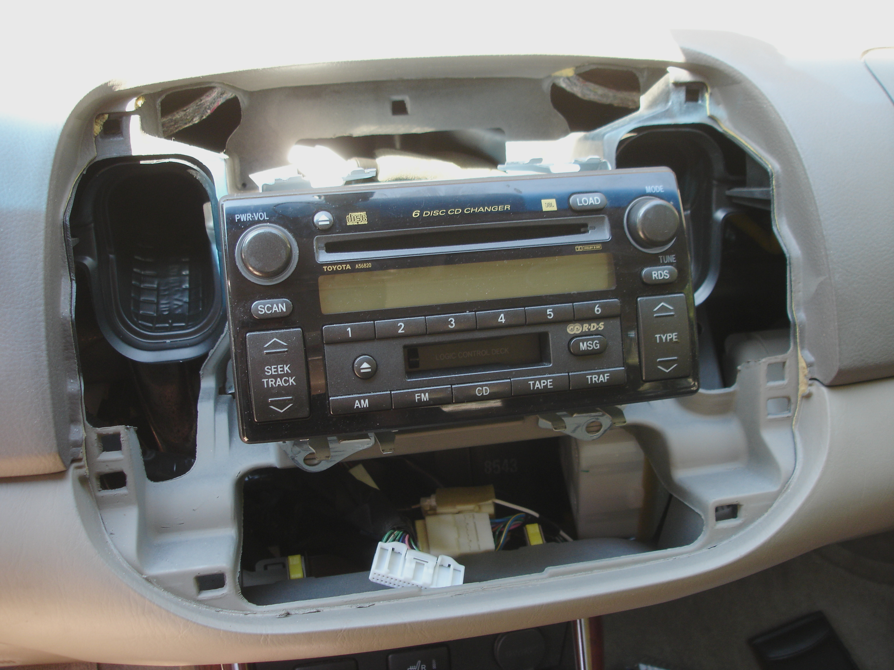 Original head unit in a sixth generation Toyota Camry with the trimpanels for the climate control and receiver removed, exposing the double-DIN ISO 7736 dashboard mount.